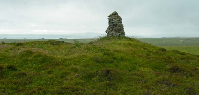 Castle Bloody Souterrain This mysterious prehistoric monument is situated near the coast at the highest topographic point on southeast Shapinsay.